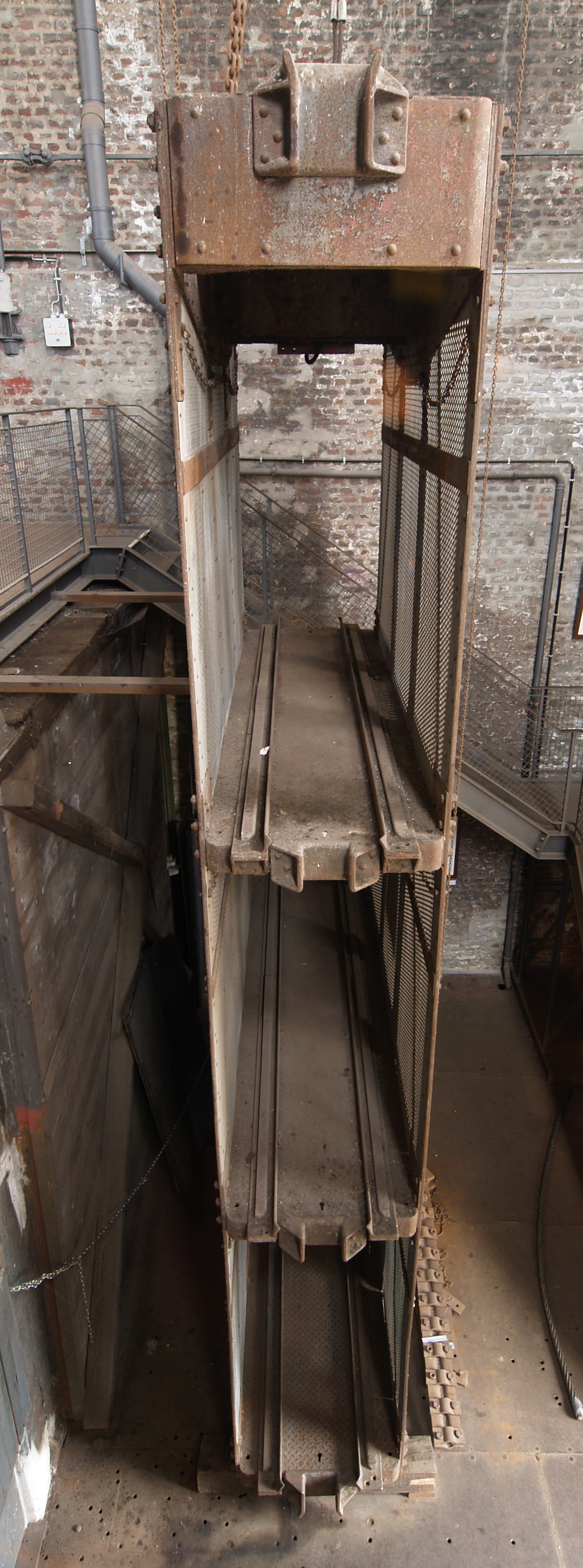 Hoisting cage with three levels at the former coal mine 'Zeche Hannover' at Bochum, Germany